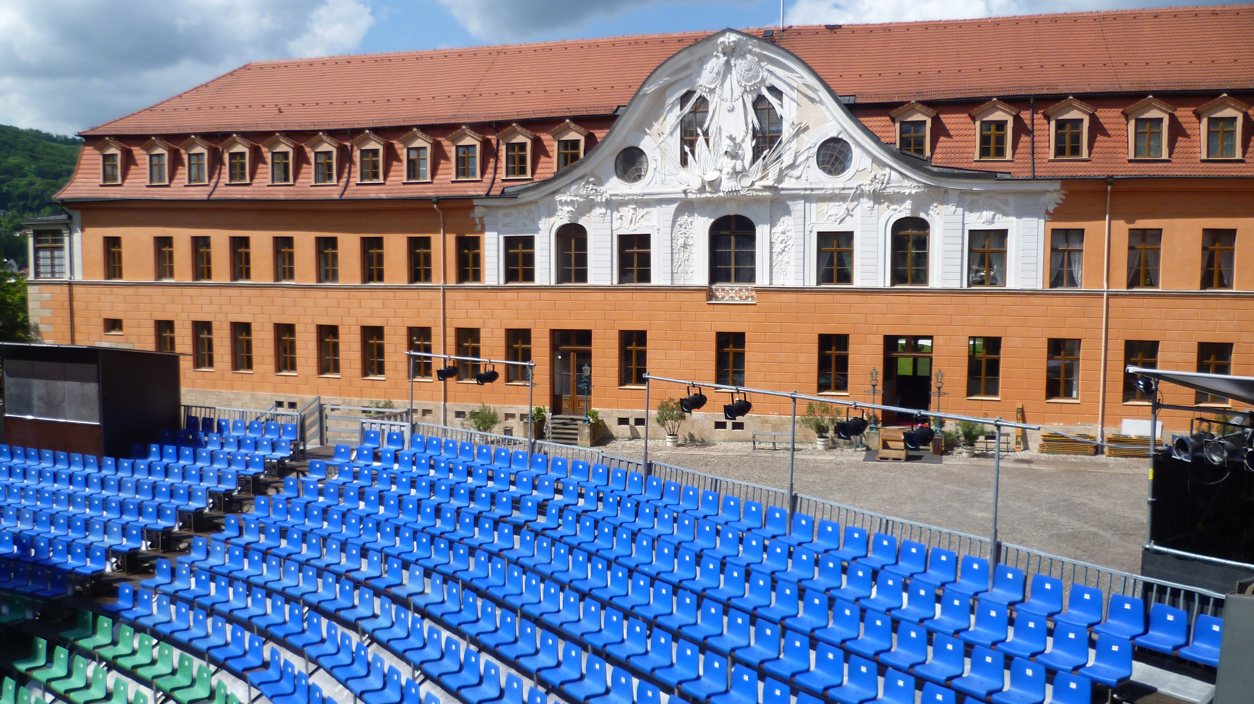 Sondershausen Palace